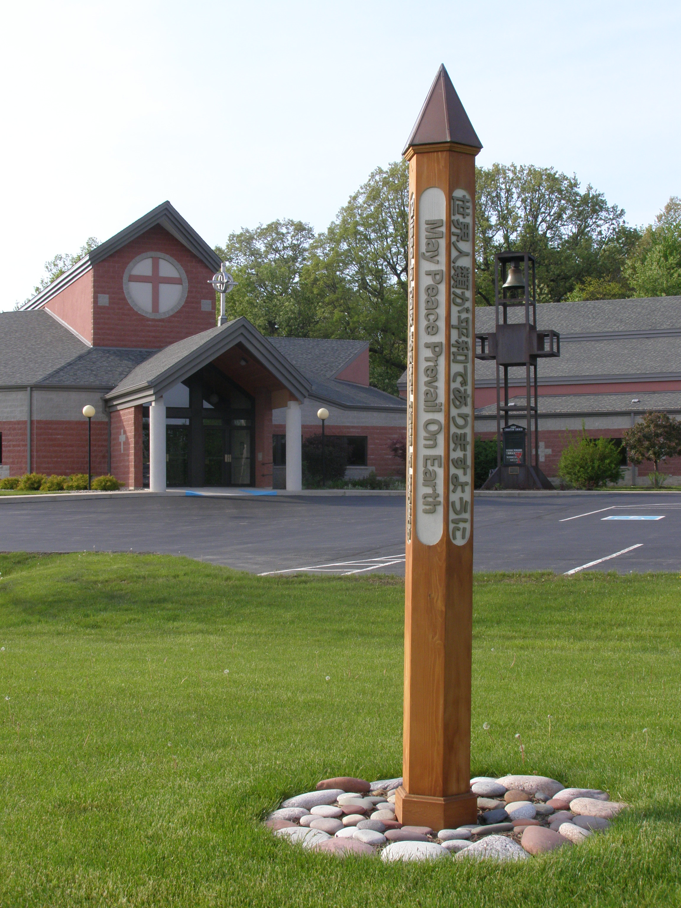 Peace Pole at First Christian Church (Disciples of Christ) in Valparaiso, Indiana.